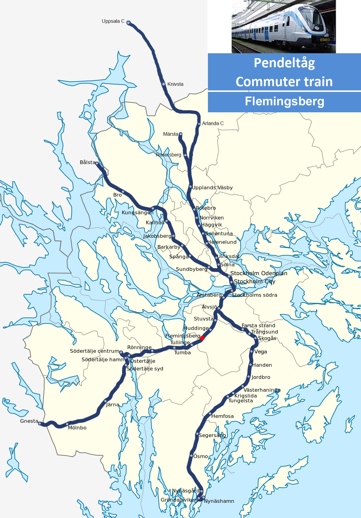 Flemingsberg station map